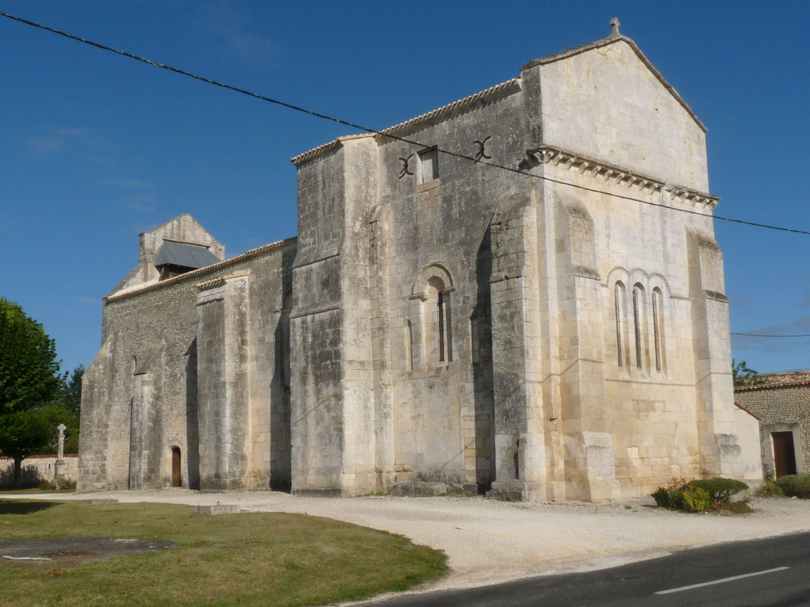 church of Meux, Charente-Maritime, SW France